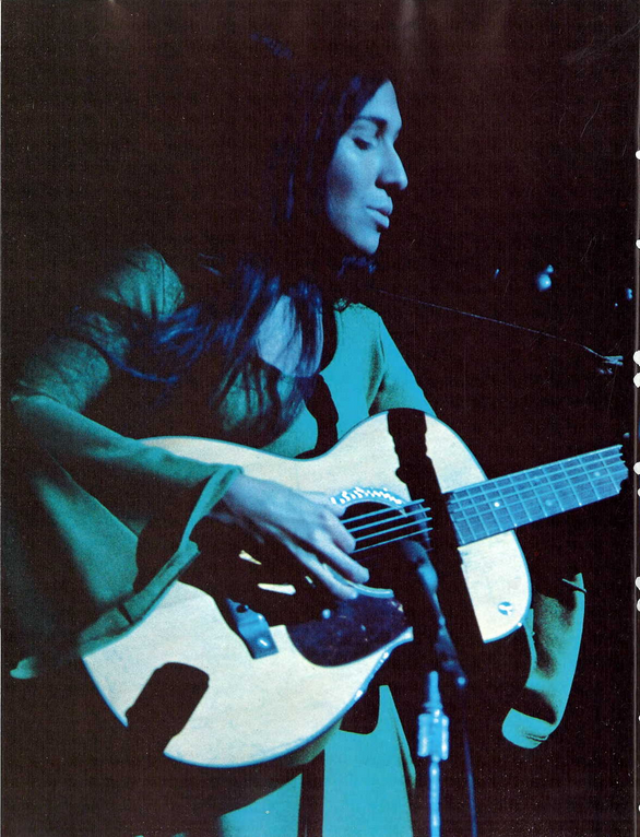 Photograph Buffy Ste. Marie at the University of Michigan campus in Ann Arbor.